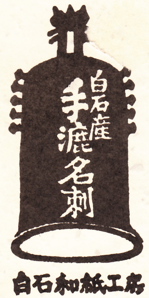 KATAKURA Nobumitsu's package design.